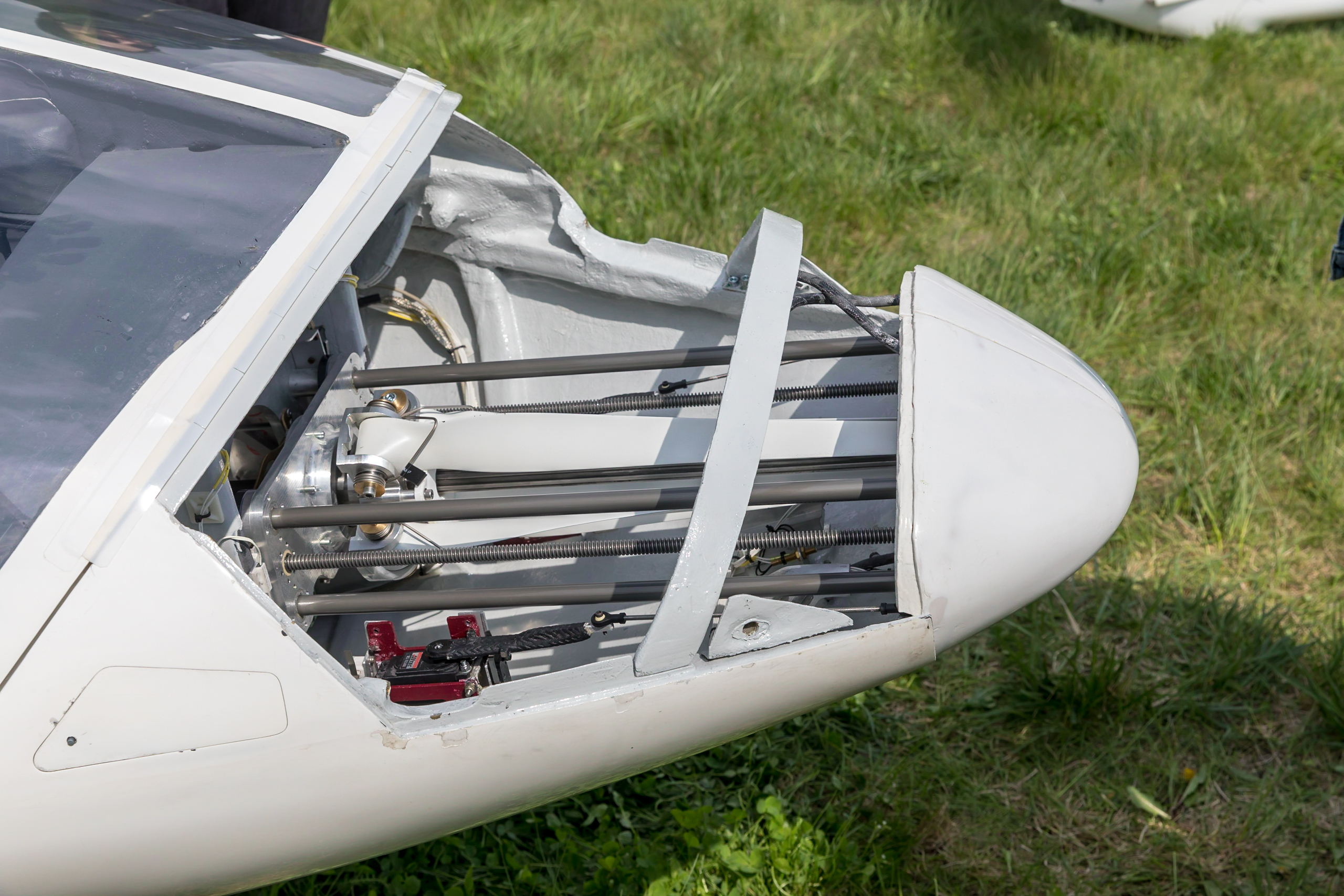 retractable propeller of Akaflieg B13e, ILA 2018